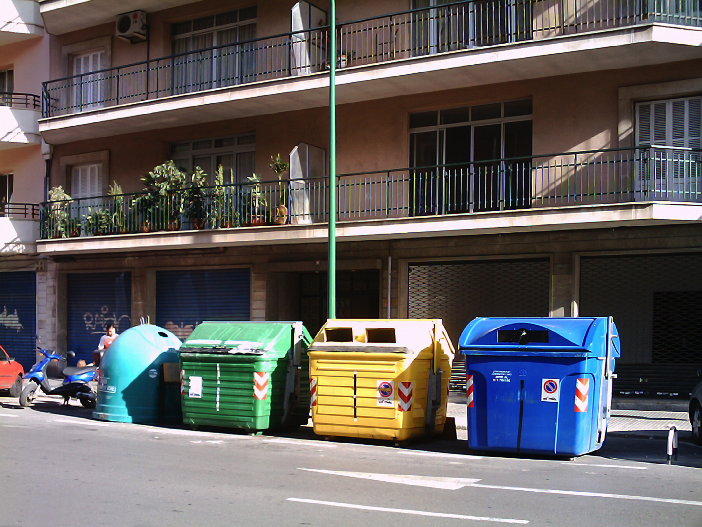 Manure and recycling of glass, cardboard, and containers. 2006 Autor: P. Pérez